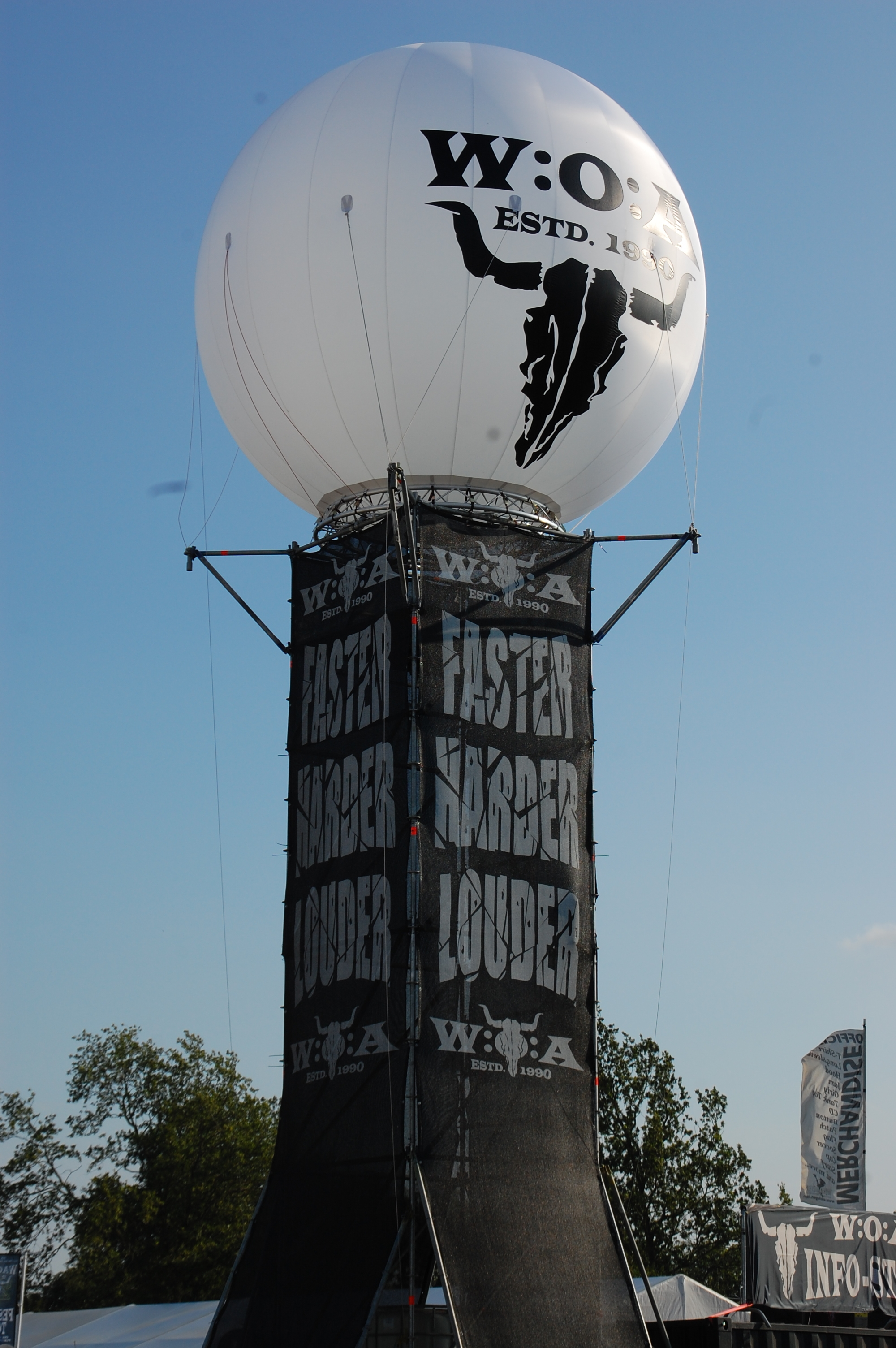 At Wacken Open Air 2011, impression